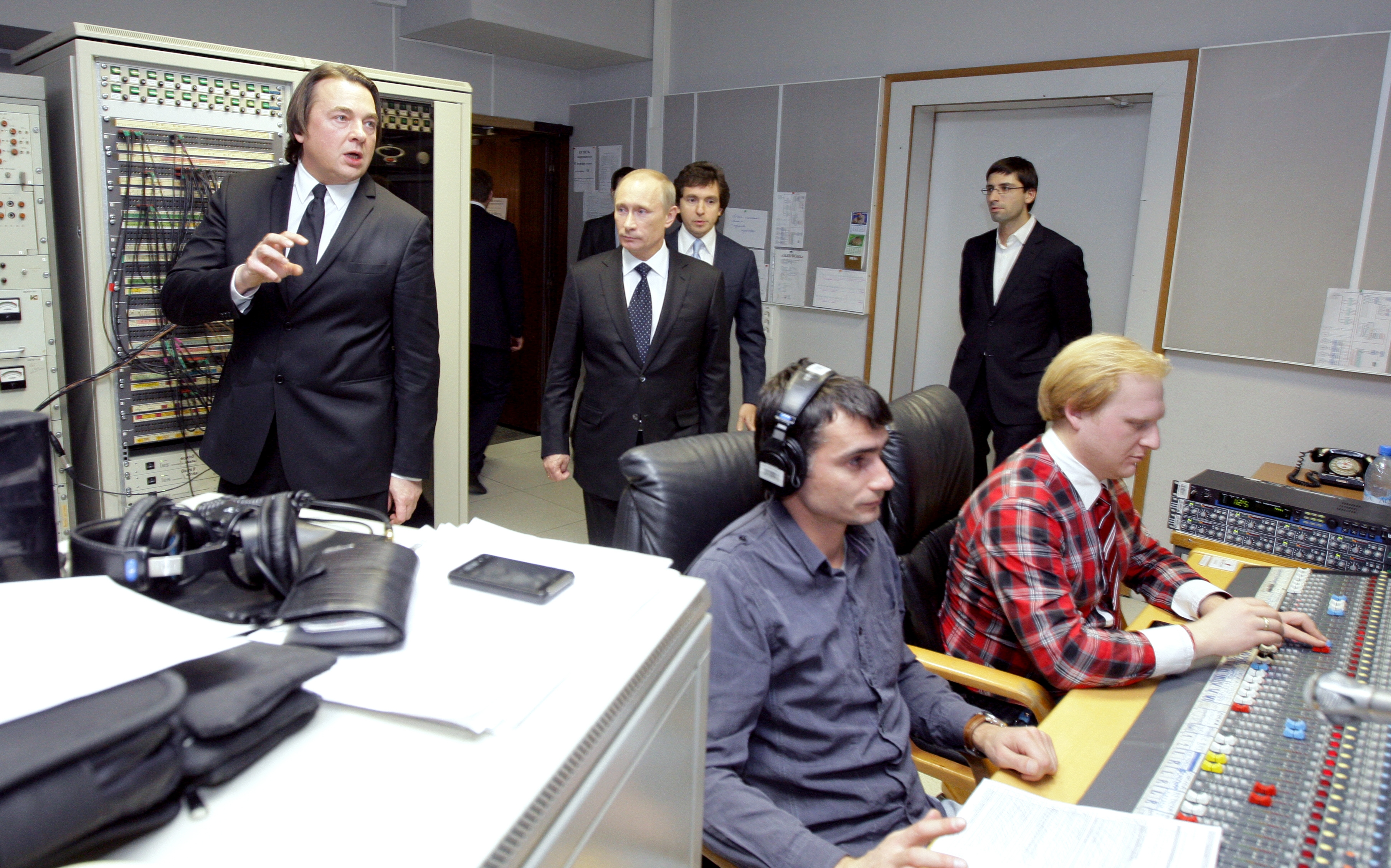 Late last night, Prime Minister Vladimir Putin visited the newsroom and gallery at Channel One in Ostankino